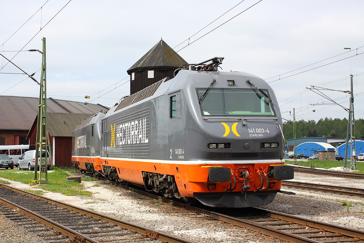 Hectorrail 141 003-4 and sister engine at Hallsberg. Both are ex ÖBB class 1012.